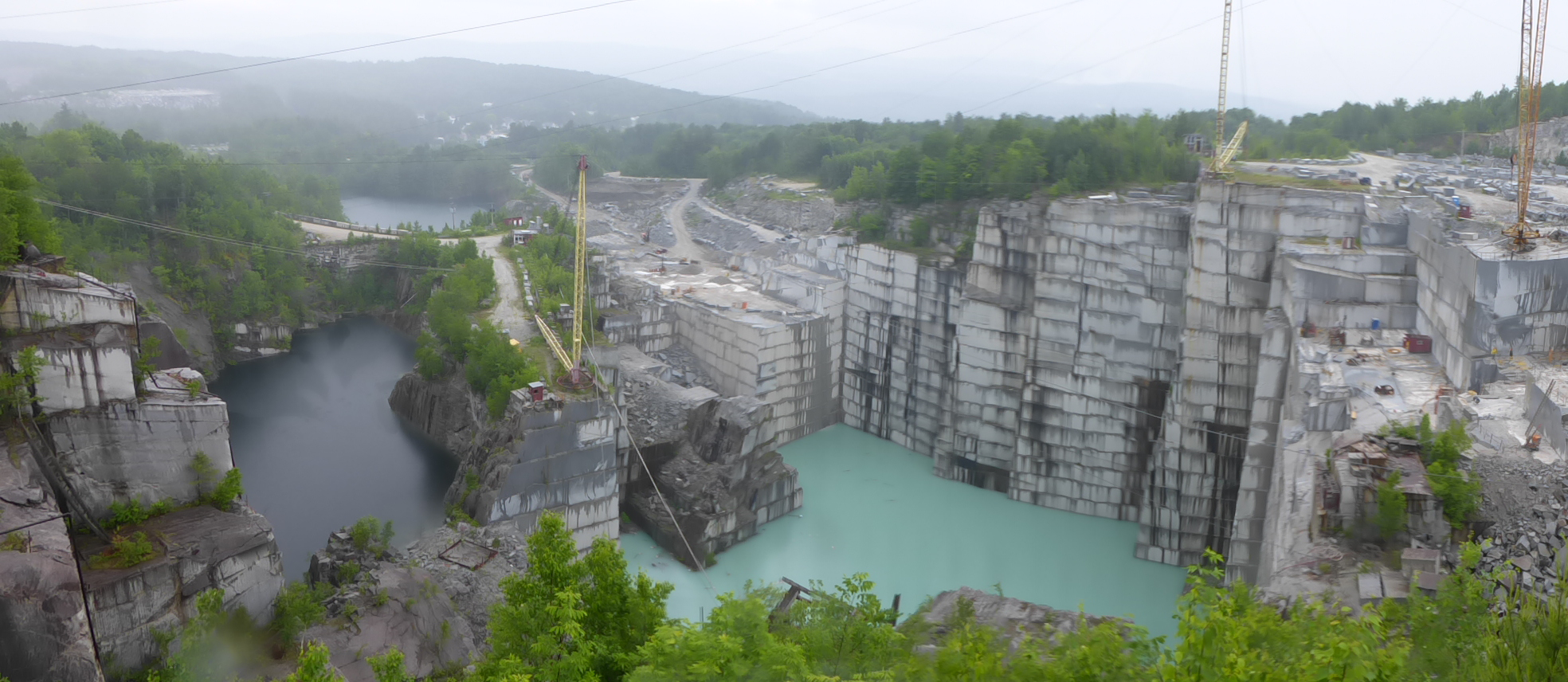 Rock of Ages granite quarry in Barre Vermont